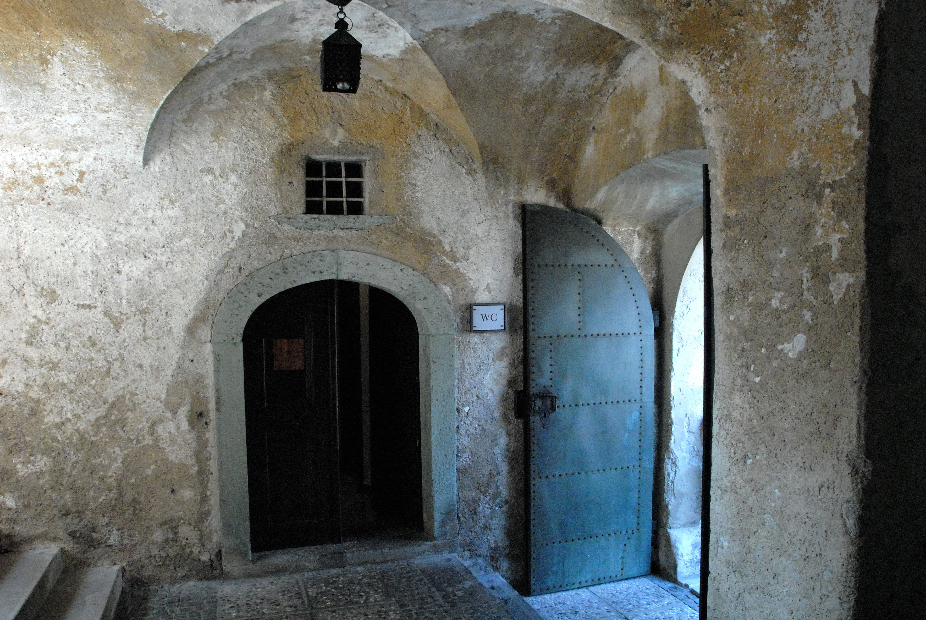 Entrance hall to the staircase leading to the upper inner ward of the Bled castle, Bled, Slovenia